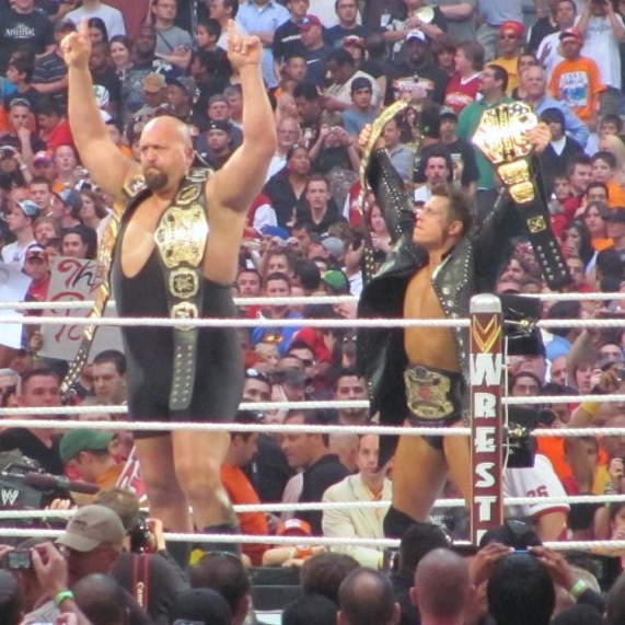 ShoMiz after successfully defending their Unified Tag Team Championships against John Morrison and R-Truth at Wrestlemania XXVI